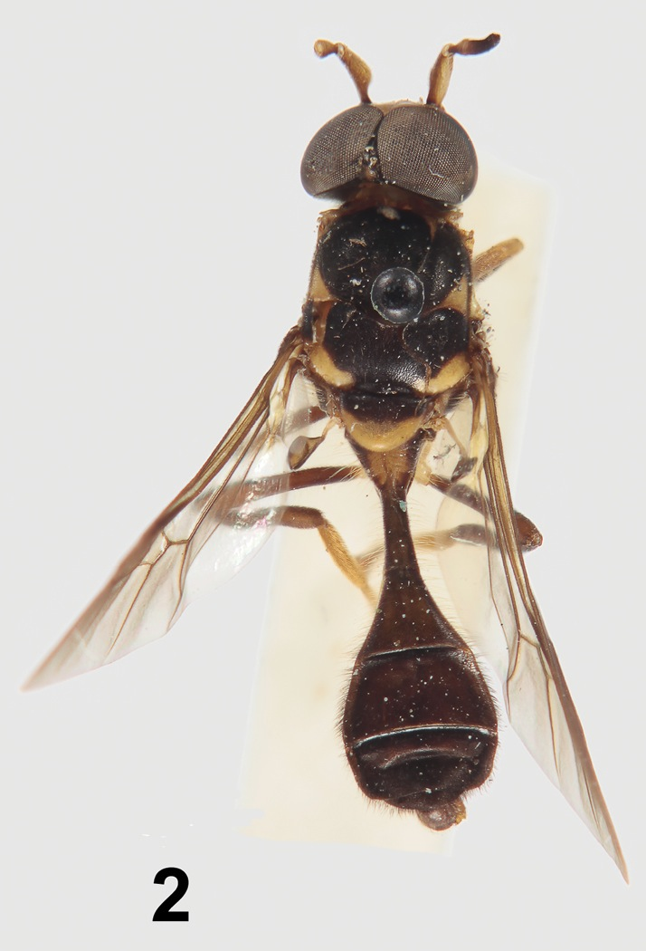 Parastratiosphecomyia stratiosphecomyioides Brunetti (lectotype).